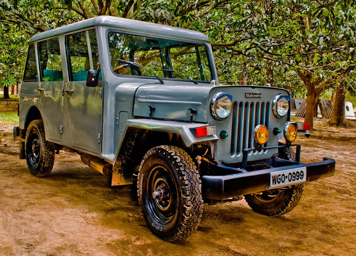 1988 Mahindra CJ 640 DP, Peugeot XDP 4.90 diesel engine (20HP, tax horsepower). Unusual style of four-door bodywork, using the same doors front and rear and with what seems like a symmetric rear side window.